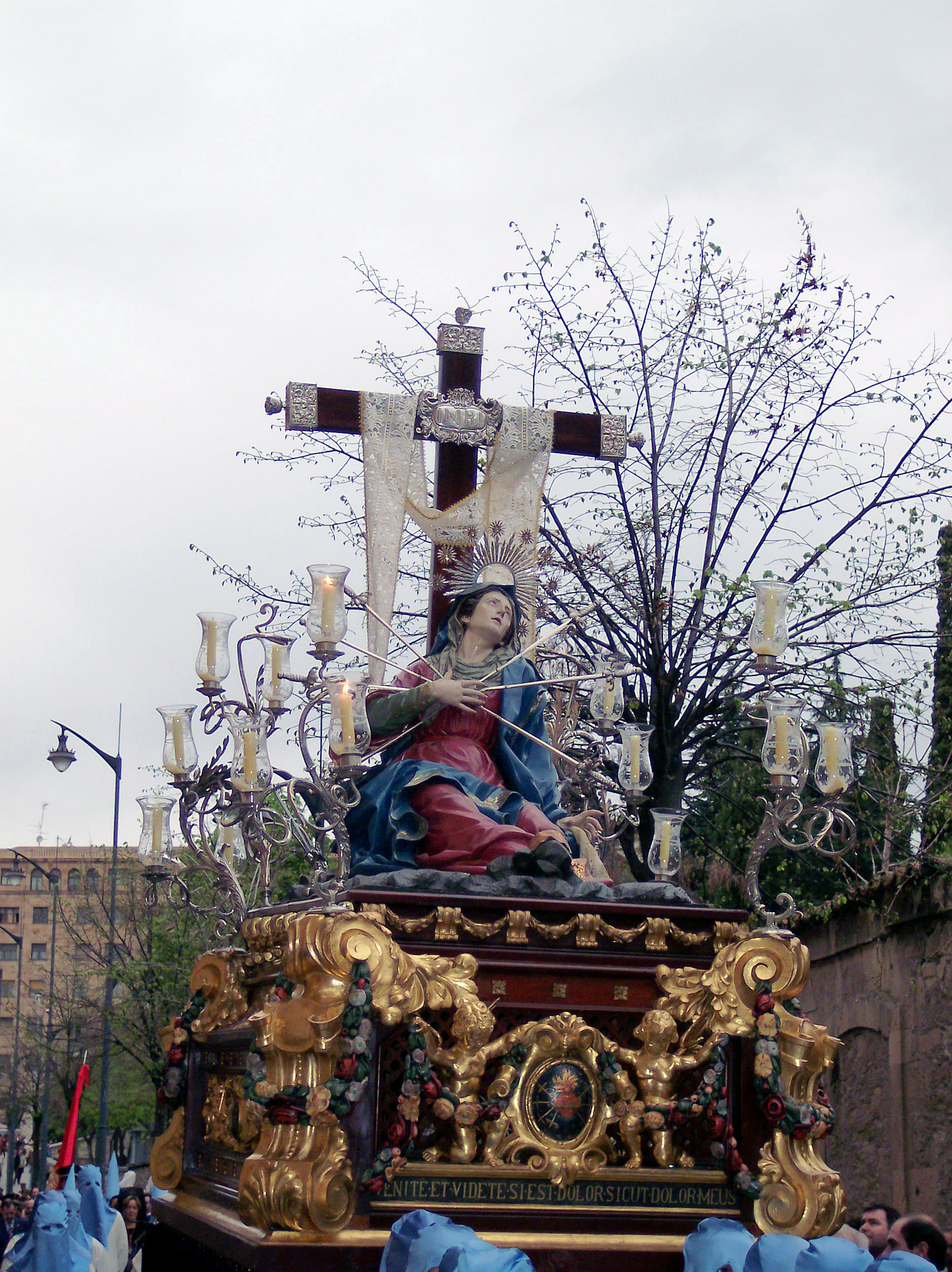 Our Lady of Sorrows, by Felipe del Corral, Brotherhood of the Holy True Cross, Salamanca (Spain)